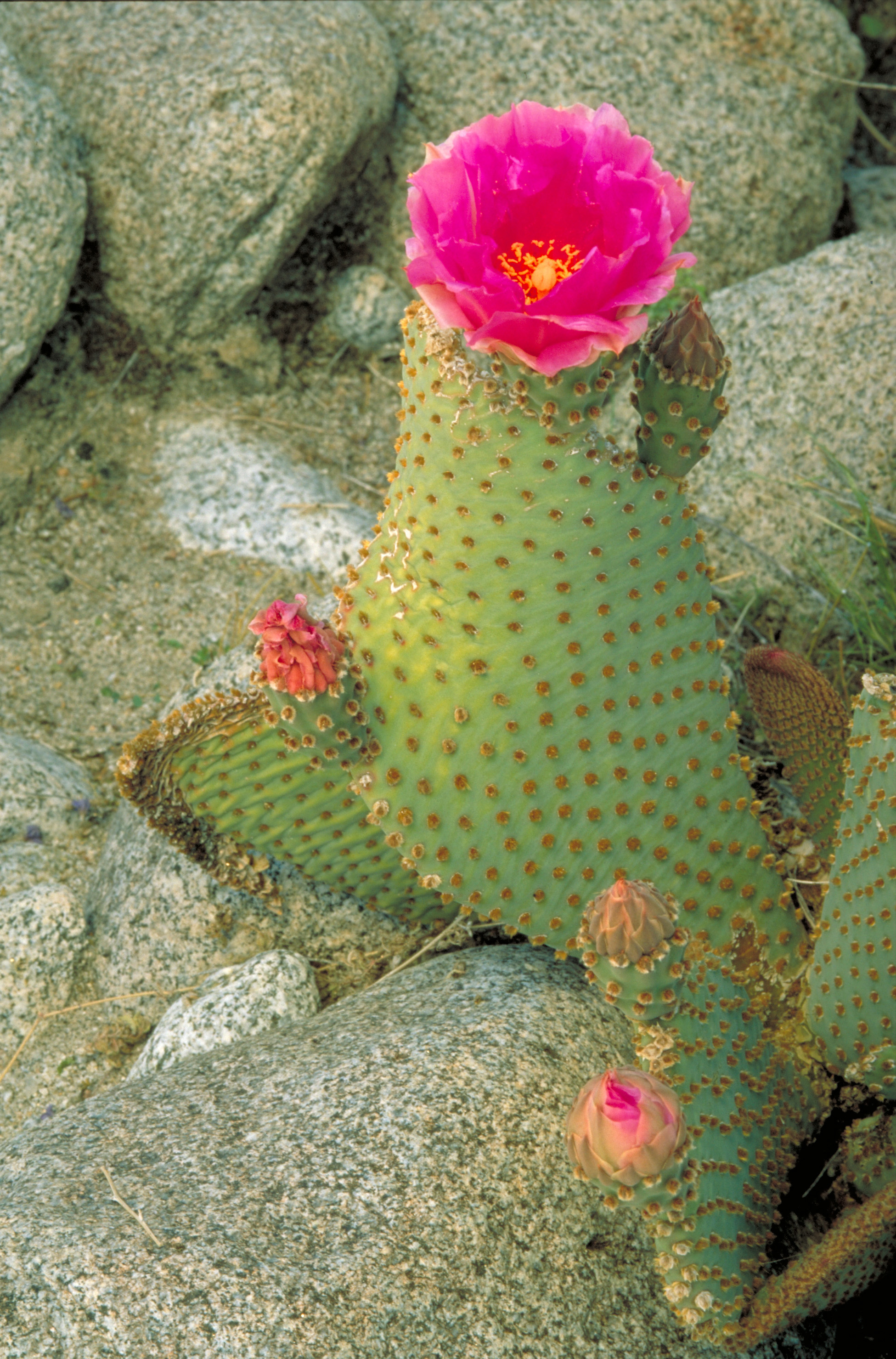 Opuntia basilaris - Beavertail cactus[1]